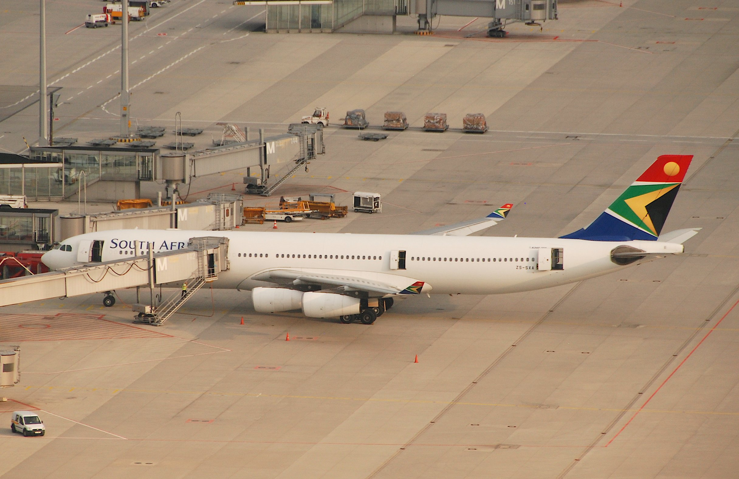 South African Airways Airbus A340-313X; ZS-SXA@MUC;09.07.2011/604co